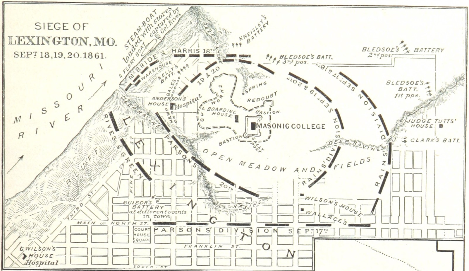 A map of the last three days of the First Battle of Lexington during the Civil War. In the original book, this description followed the map:"Captain Joseph A. Wilson, of Lexington, thus describes the Union position: "' The college is on a bluff about 200 feet above low-water mark, and from 15 to 30 feet higher than North or Main street. Third street runs along the top of the bluff. Close to and surrounding the college building was a rectangular fort of sods and earth about 12 feet thick and 12 feet high ; with bastions at the angles and embrasures for guns. At a distance of 200 to 800 feet was an irregular line of earthworks protected by numerous traverses, occasional redoubts, a good ditch, trous-de-loup, wires, etc., etc. Still farther on the west and north were rifle-pits. The works would have required 10,000 or 15,000 men to occupy them fully. All the ground from the fortifications to the river was then covered with scattering timber. The spring just north and outside of fortifications, was in a deep wooded ravine, and was the scene of some sharp skirmishing at night, owing to the attempts of the garrison to get water there when their cisterns gave out."